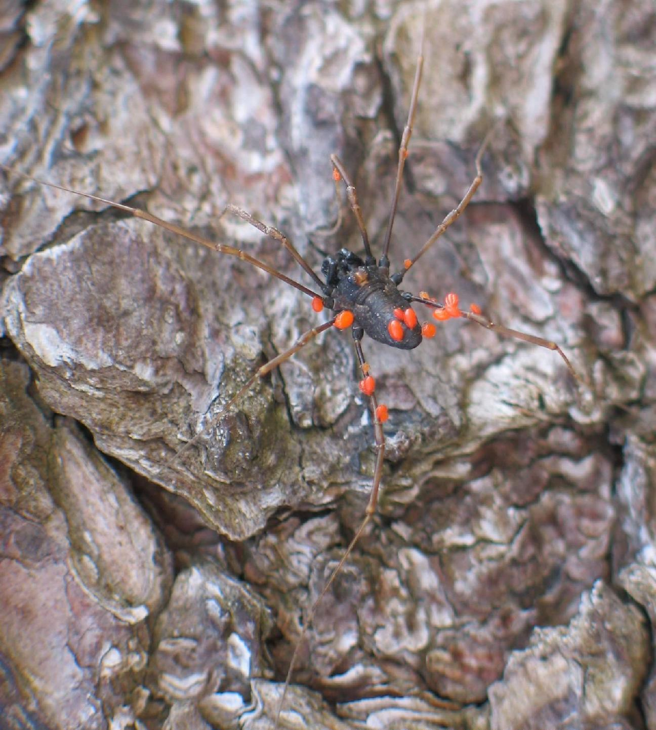 harvestman suffering from mite infestation. Description: With a short break in the Giant Mountains I wanted a hike Spindleruv Mlyn of Elbquelle to shoot some long horned crickets. I encountered this pitiful harvestman afflicted by a number of mites that parasitically feed on him.